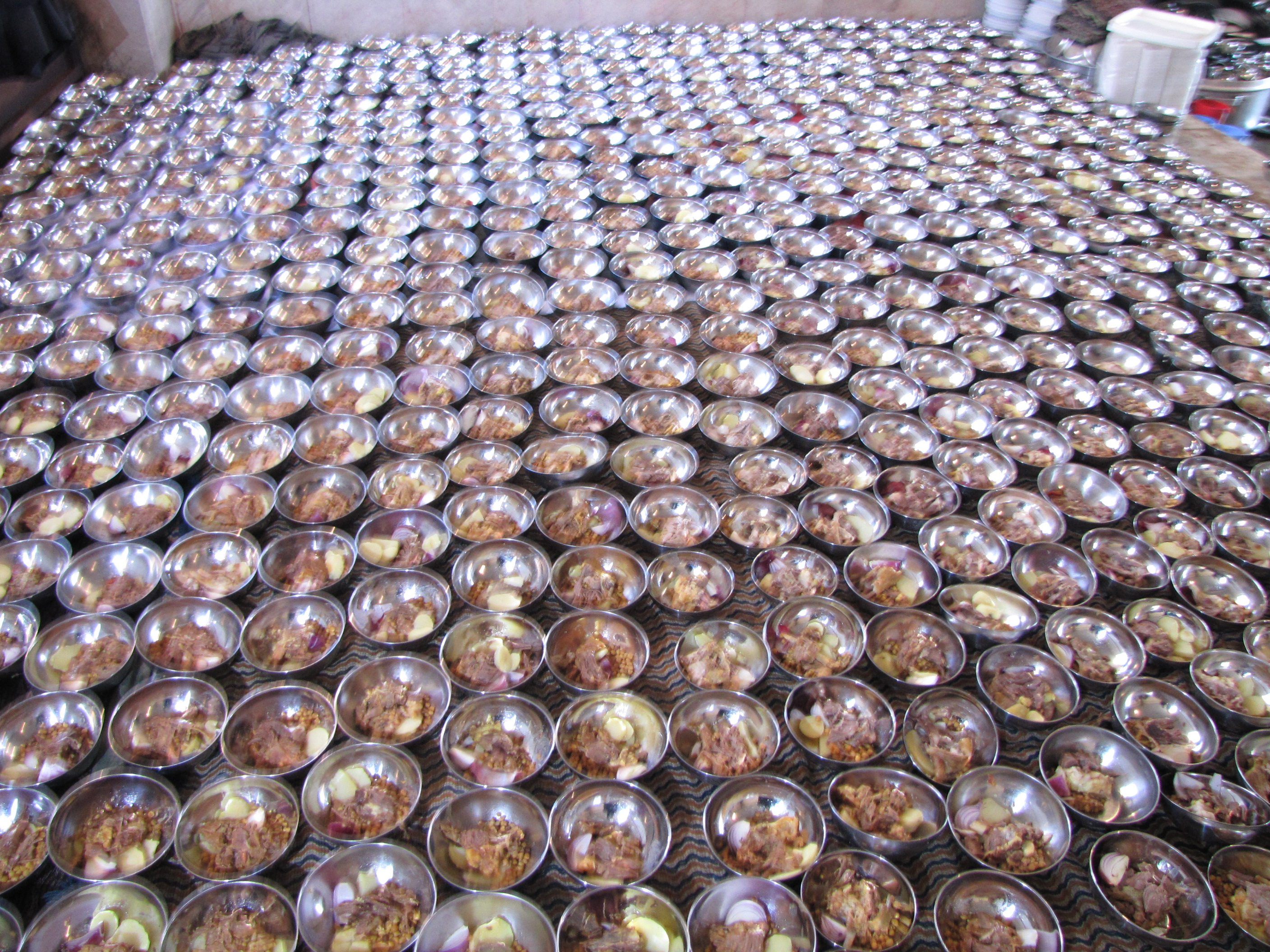 Abgoosht in bowls in Mourning of Muharram as religious vow. Mourning of Muharram is held in majority of cities and villages in Iran by Shia Muslims annually. Although all sort of ceremonies are performed for Imam Hossein and his followers martyrdom remembrance, they have different styles and rules referring to various cultures.